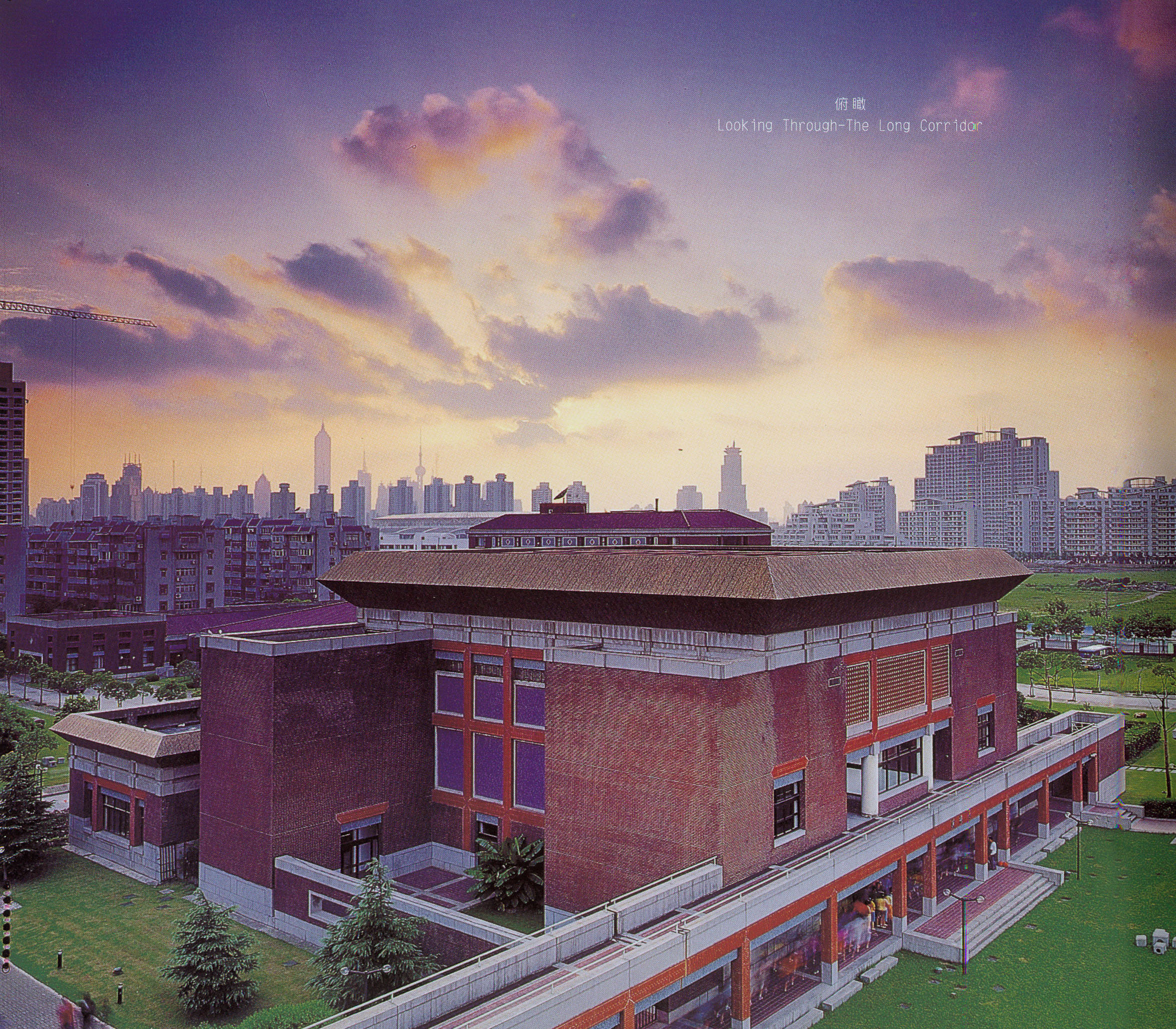 Jincai High School